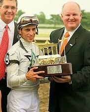 Photo of Haskeel Trophy